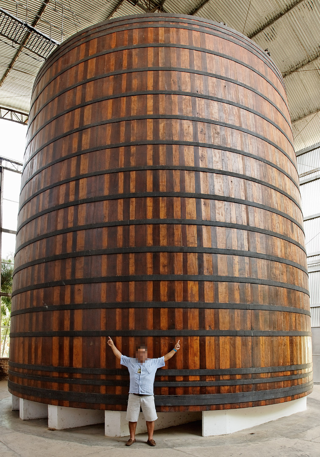 Largest barrel of cachaça and one of the largest wood barrel in use in the world. 8 m tall, 7.85 m wide, capacity of 374,000 l (98,800 US gal), made in 2002. Ypióca's Museum of Cachaça at Maranguape, Ceará, Brazil.